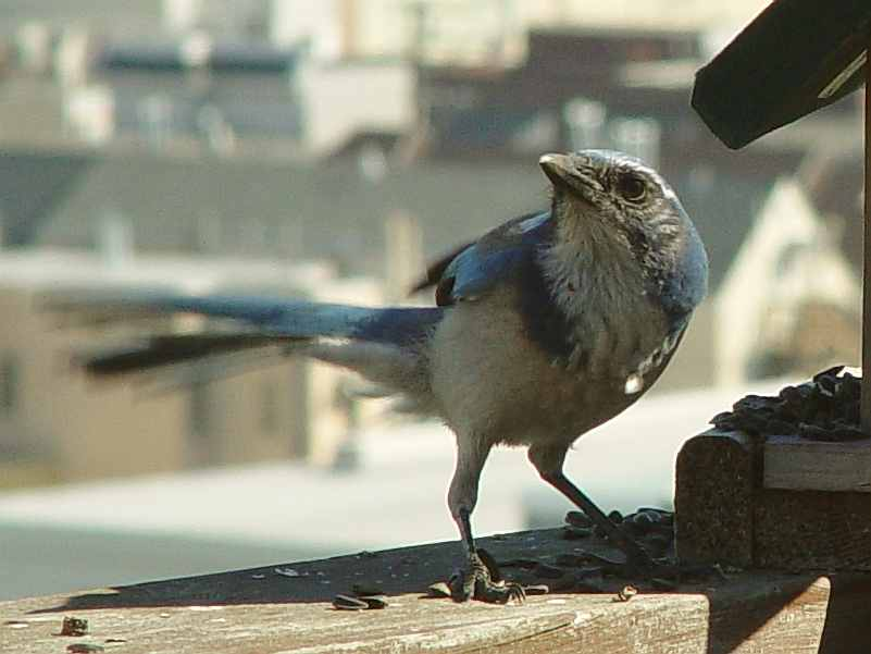 Description Aphelocoma californica, Family Corvidae Date September 21, 2002 Location San Francisco, California Photographer Franco Folini